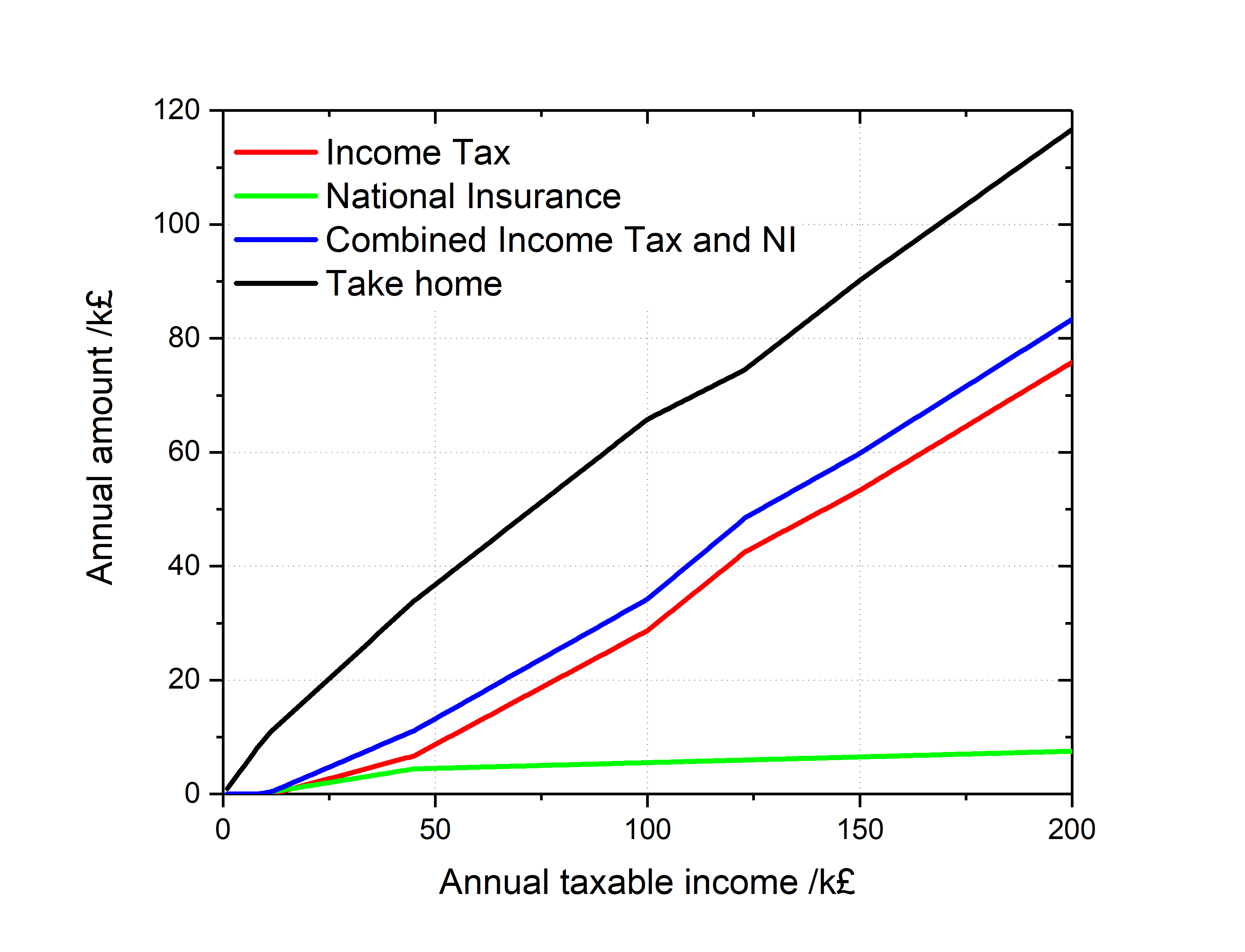 Charges to UK income tax and National Insurance in £ for the tax year 6 April 2016 thru 5 April 2017. This takes account only of straightforward income tax and Class I employee NICs without contracted-out pension contributions. Made in Origin(Software). According to HMRC, the tax and National Insurance rates and allowances for 2016/17 are: Income tax (per annum) Up to personal allowance, 0%: £11,500 pa. Basic rate, 20%: First £33,500pa above personal allowance. Higher rate, 40%: 33,500 to 150,000 pa above the personal allowance. Additional rate, 40%: Everything more than £150,000pa above the personal allowance. Personal allowance redeuced by 1£ per every 2£ earned above 100,000pa. National Insurance contributions (per annum) Up to primary threshold, 0%: £8,164pa. Up to 'upper earnings limit', 12%: First £36,860pa above the primary threshold. Above 'upper earnings limit', 2%: Everything more than £36,860pa above the primary threshold.